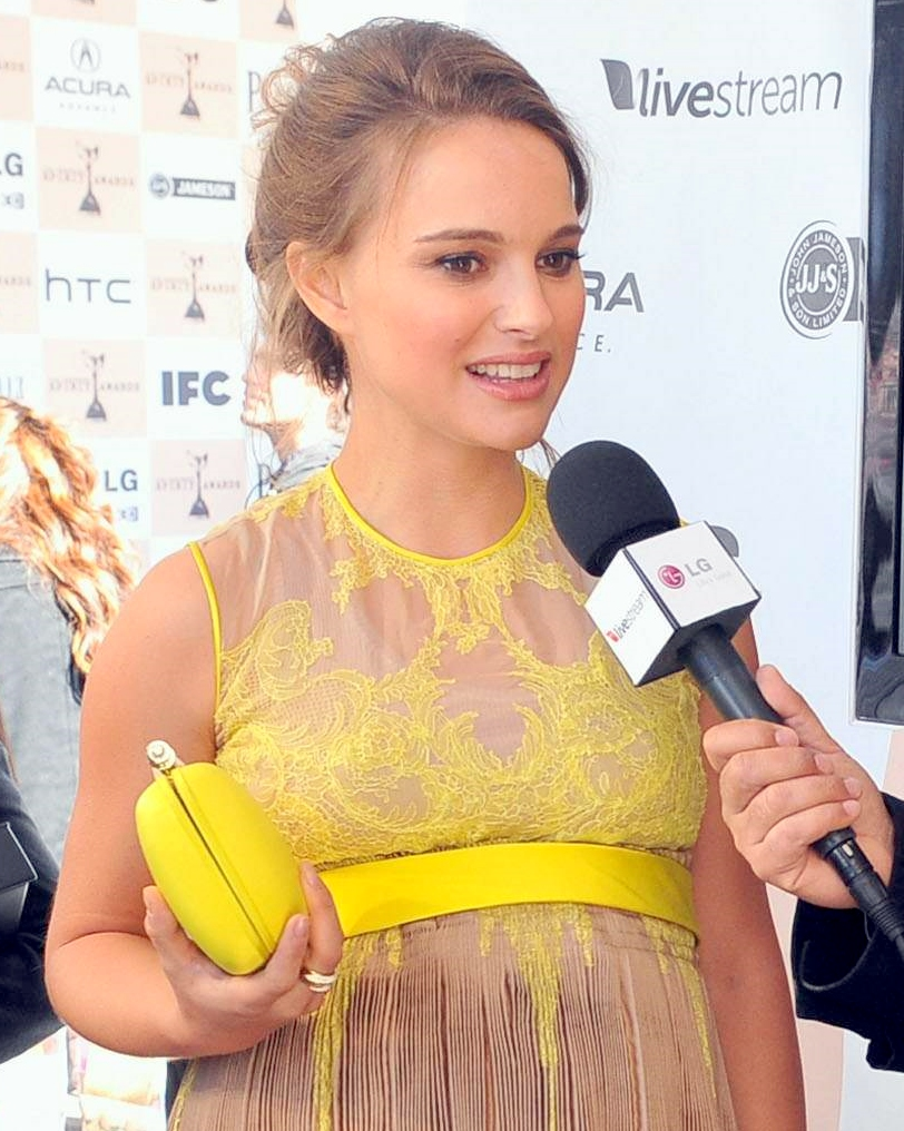 Natalie Portman at the 2011 Film Independent's Spirit Awards.